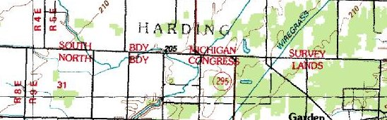 USGS Topographical map of the Michigan/Toledo boundary, as determined by the en:1800s Michigan Survey.